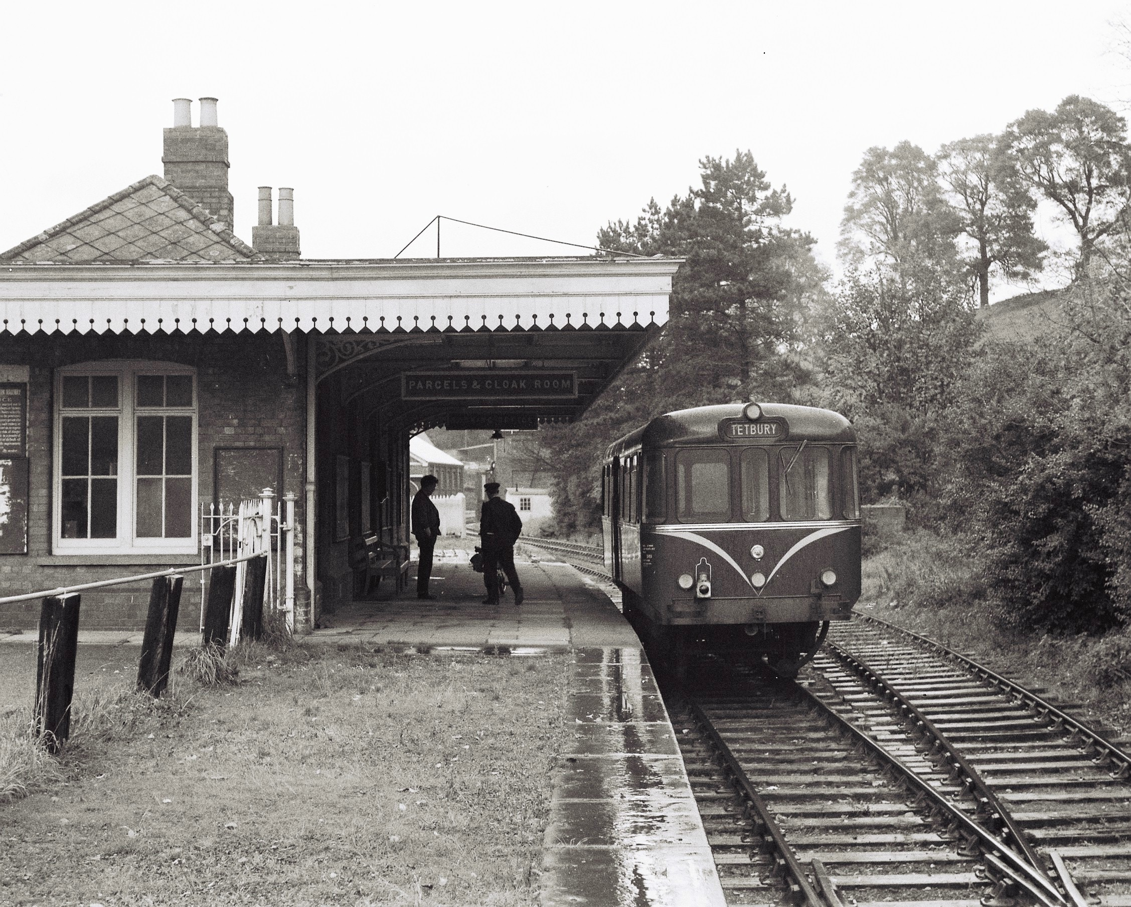 An AC Cars diesel railbus at Tetbury railway station.